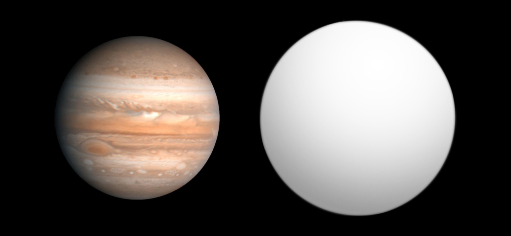 Comparison of best-fit size of the exoplanet HAT-P-25 b with the Solar System planet Jupiter, as reported in the Open Exoplanet Catalogue[1] as of 2010-09-30. ↑ Open Exoplanet Catalogue (2010-09-30). Retrieved on 2010-09-30.